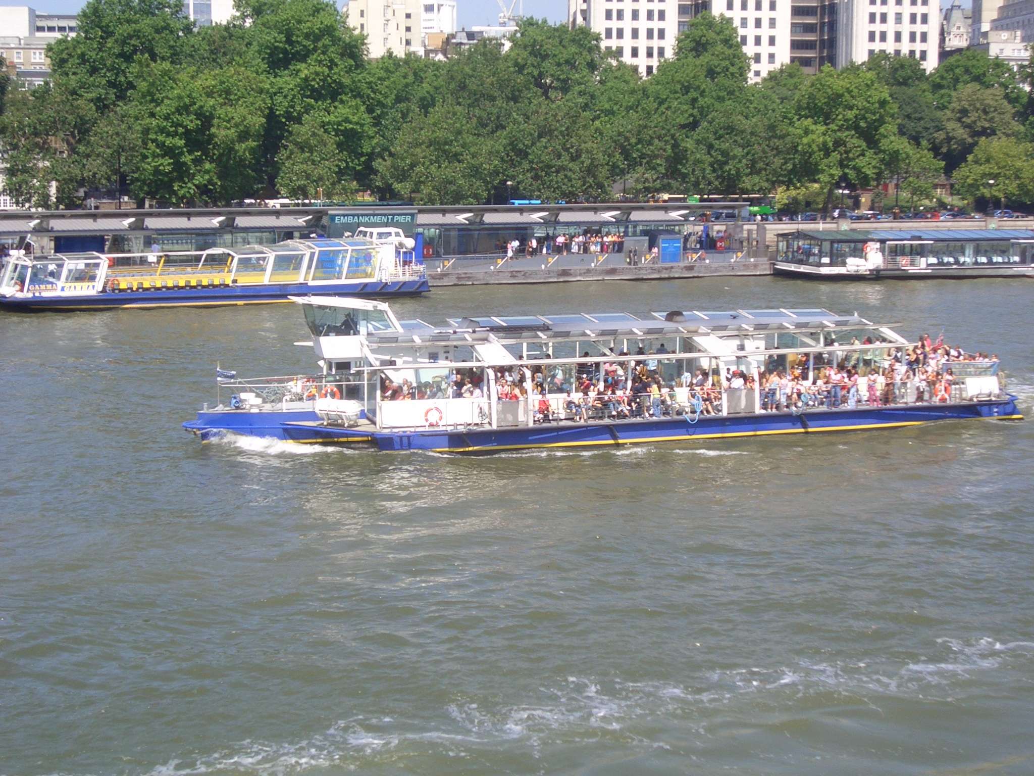 An unidentified Catamaran Cruisers boat on the Thames, with Hydrospace Gamma at Embankment Pier in the background.